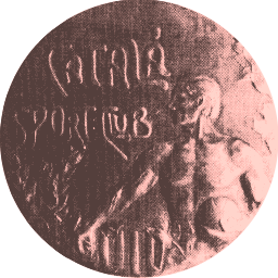 Historical bronze medal carved by J. Marquès of Català Sport Club. Digitally enhanced and with alpha channel. Sepia filter applied.